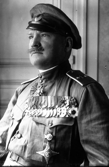 Nechvoldof, Mikhail Dimiriyevich